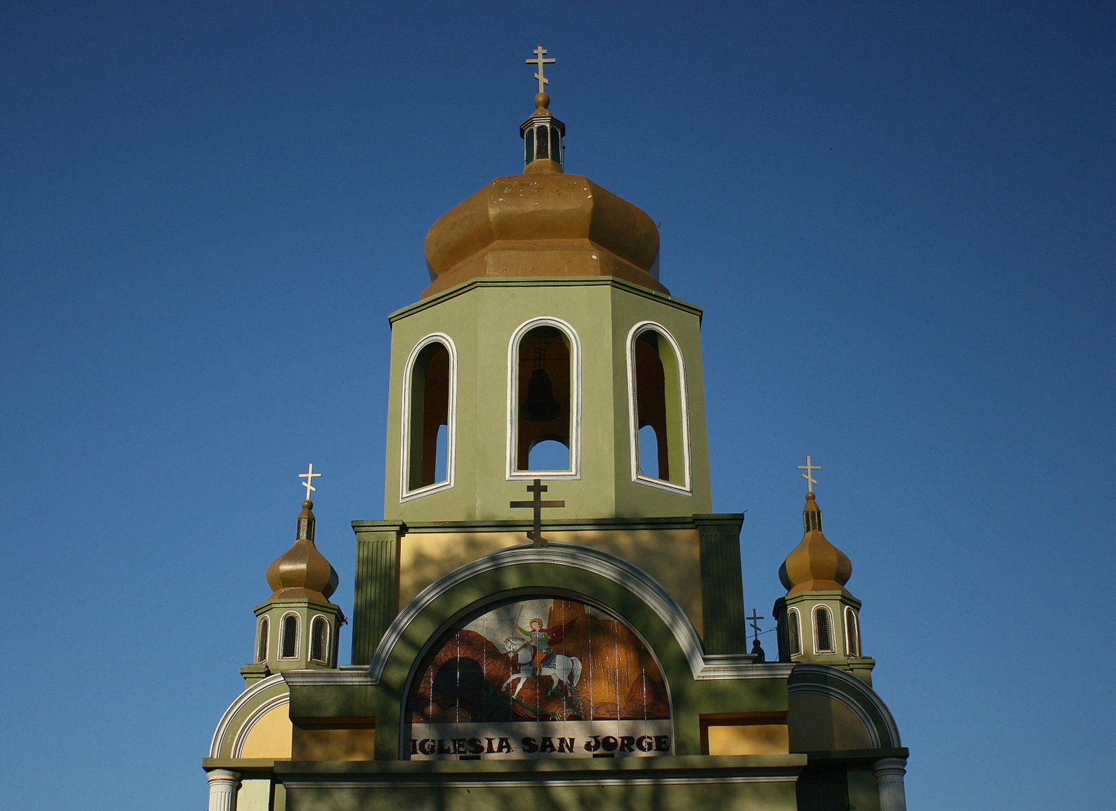 Ukrainian Orthodox Cathedral of san Jorge with an onion tower.